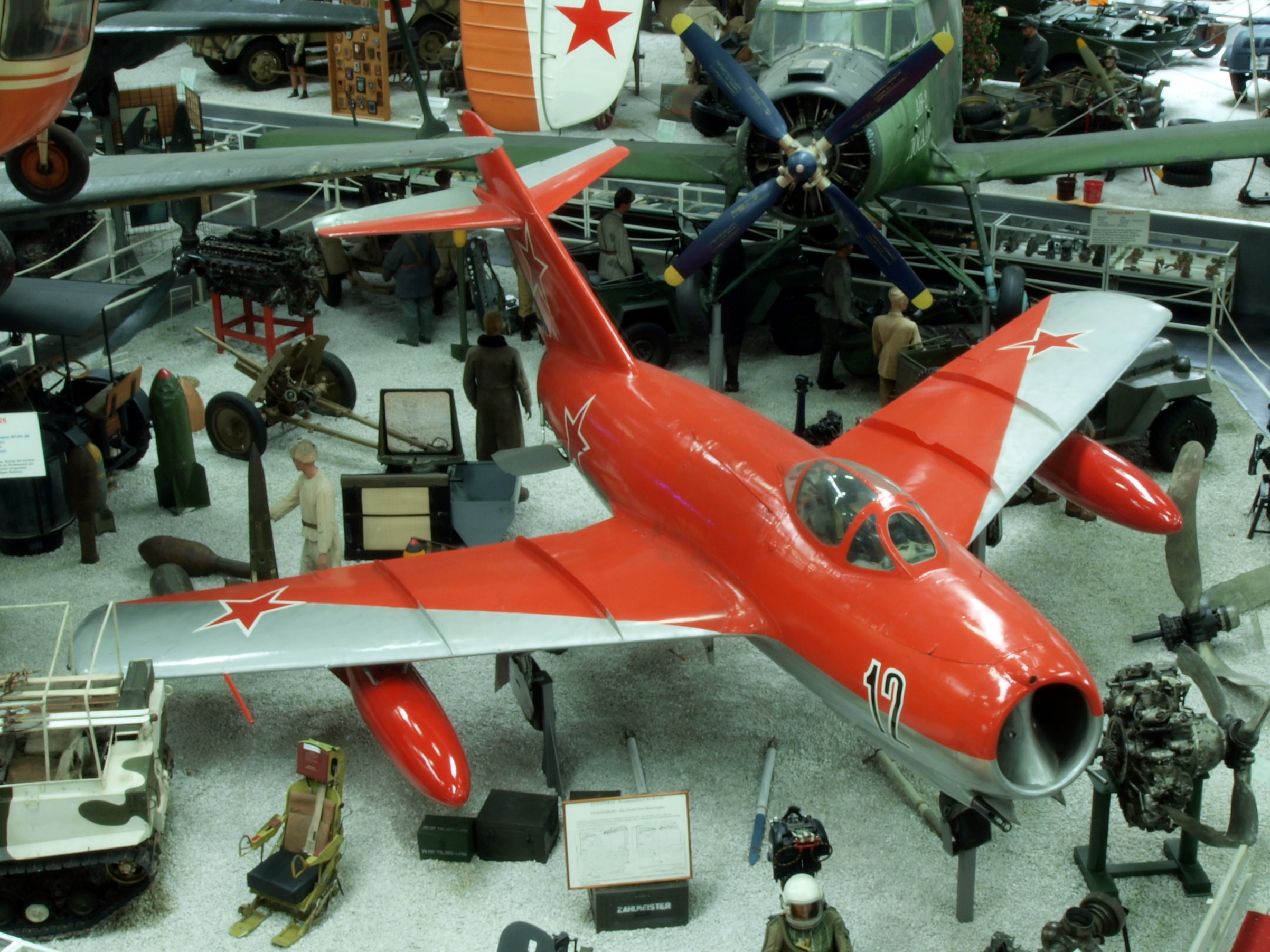 Photographed at the Auto & Technic museum Sinsheim.